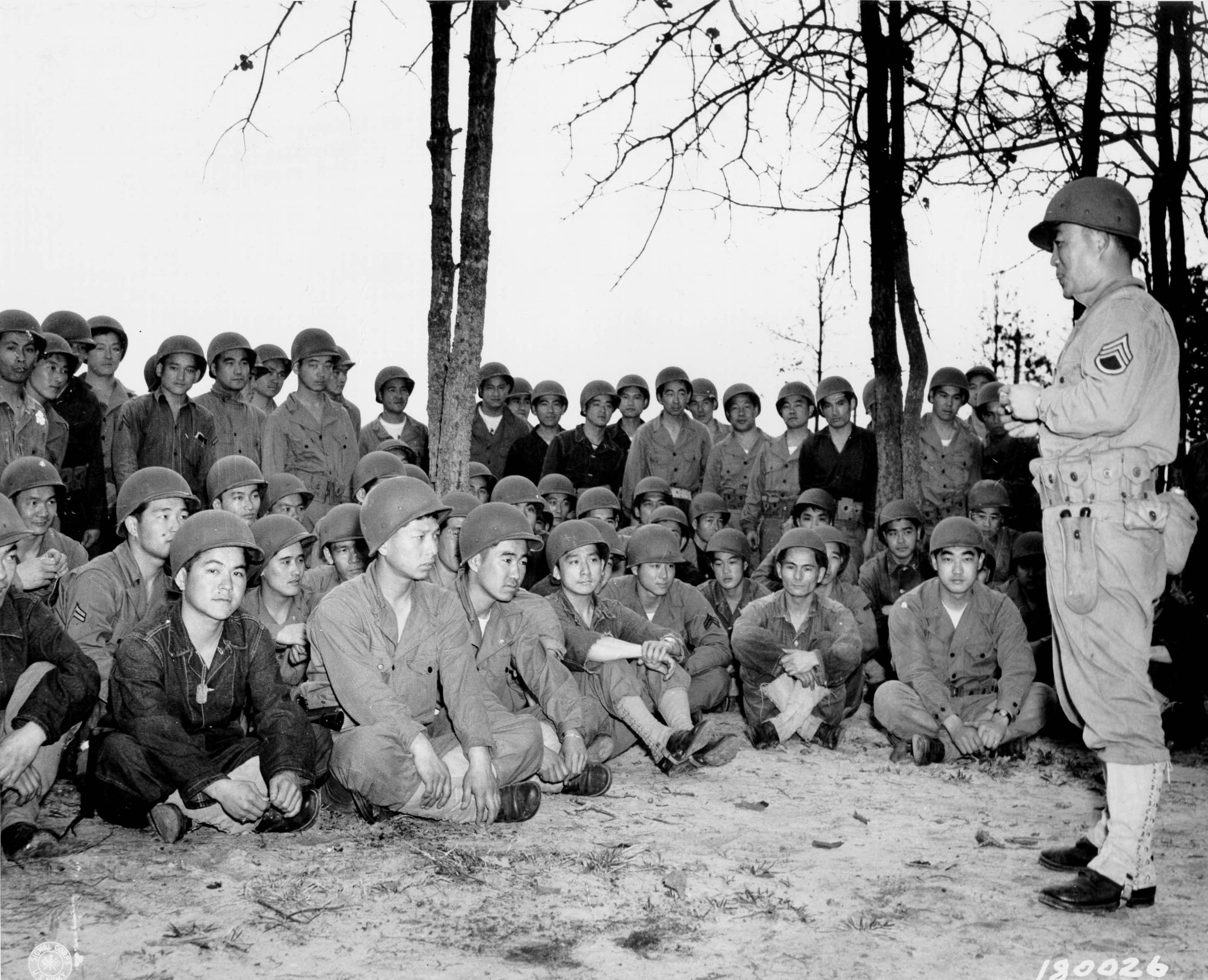 The 100th Infantry Battalion receiving grnade training in 1943.